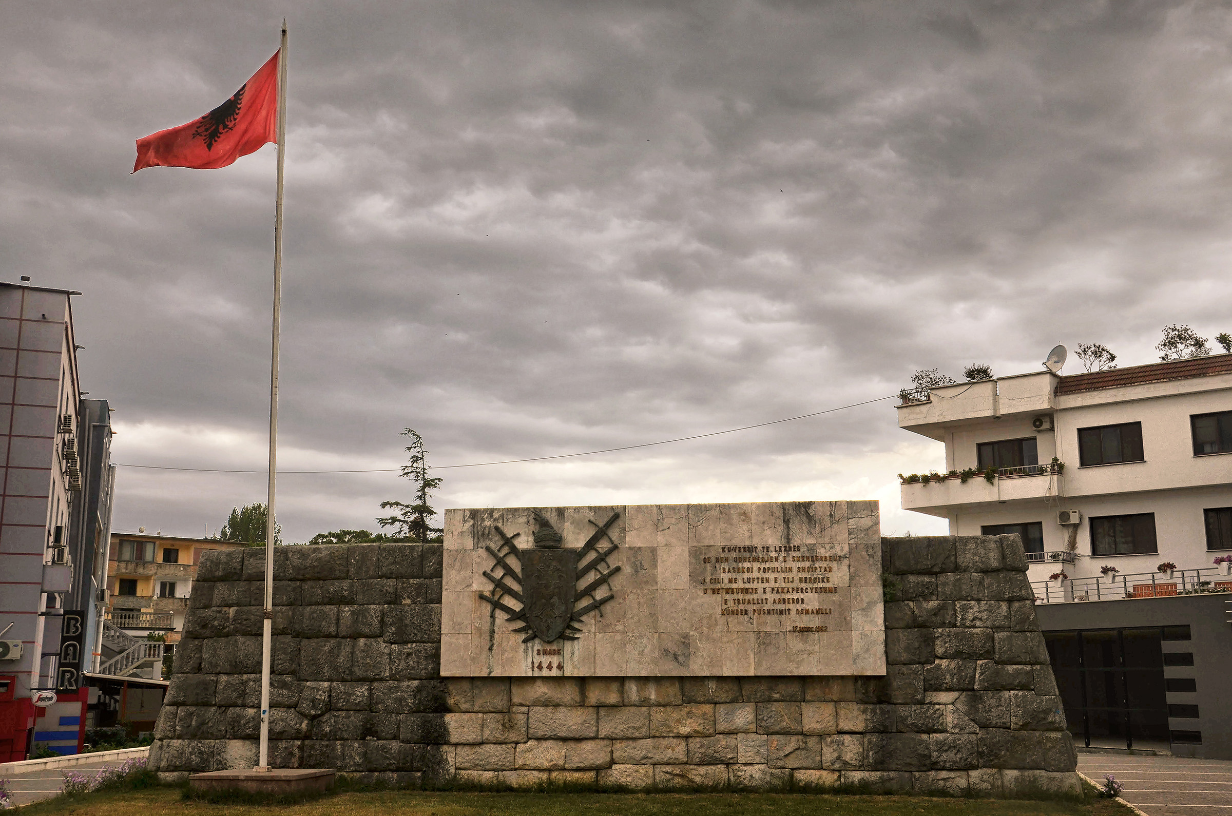 The memorial of the 1444 Lezhë Assembly in Lezhë, Albania